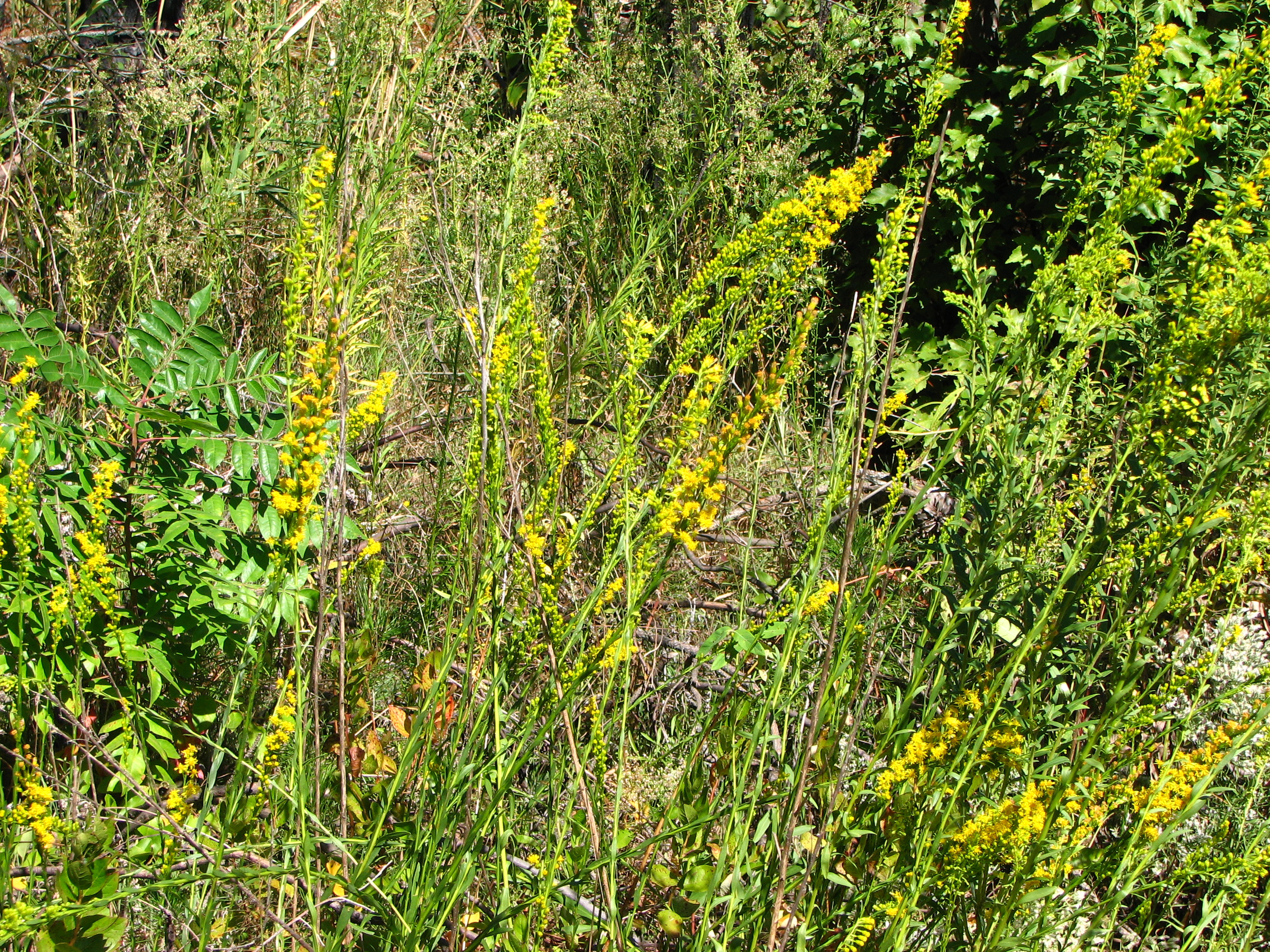 Solidago stricta growing in the New Jersey Pine Barrens. Note the tightly appressed leaves typical of the species.